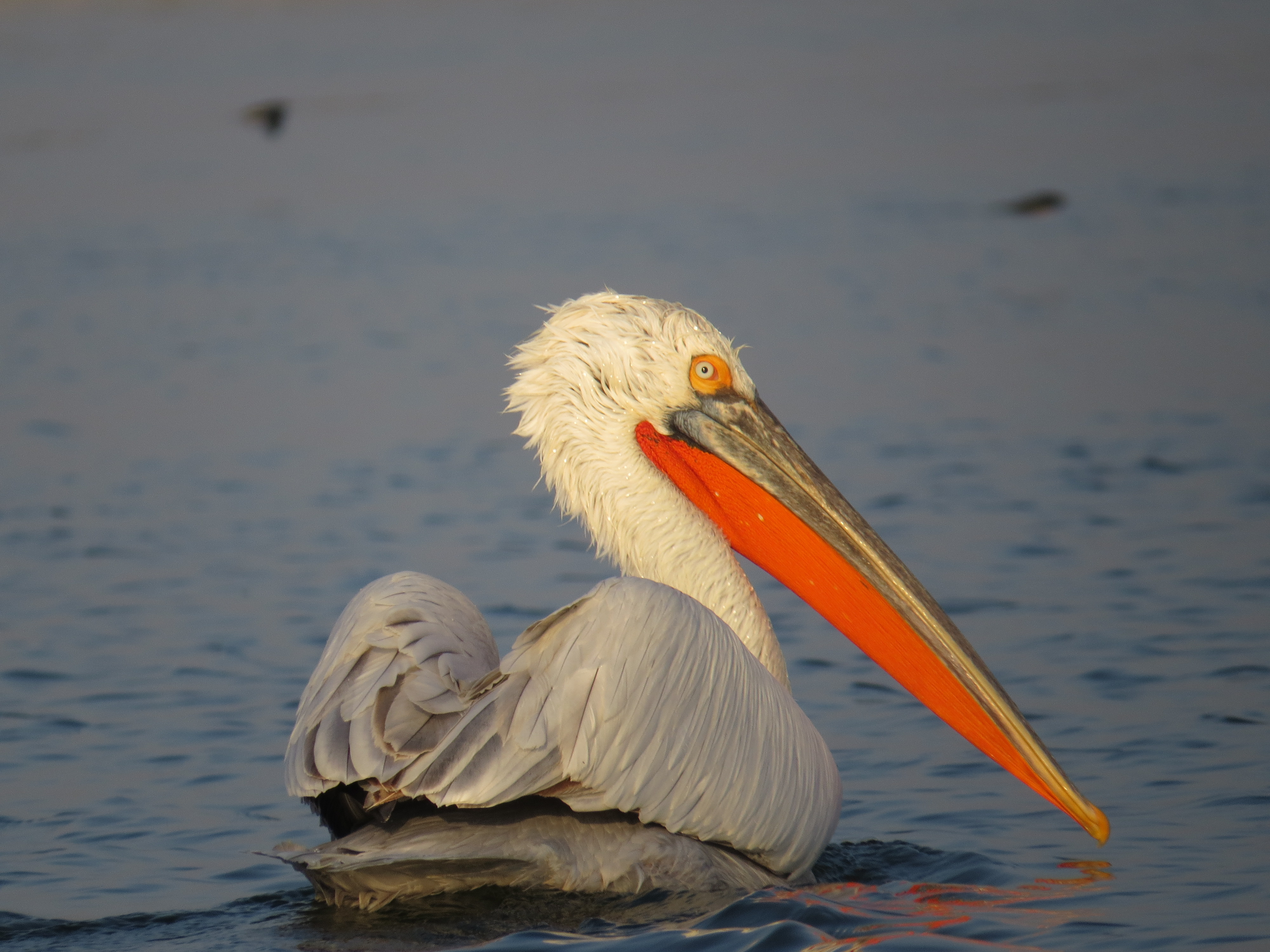 Dalmatian Pelican Pelecanus crispus, near Gir national park, India